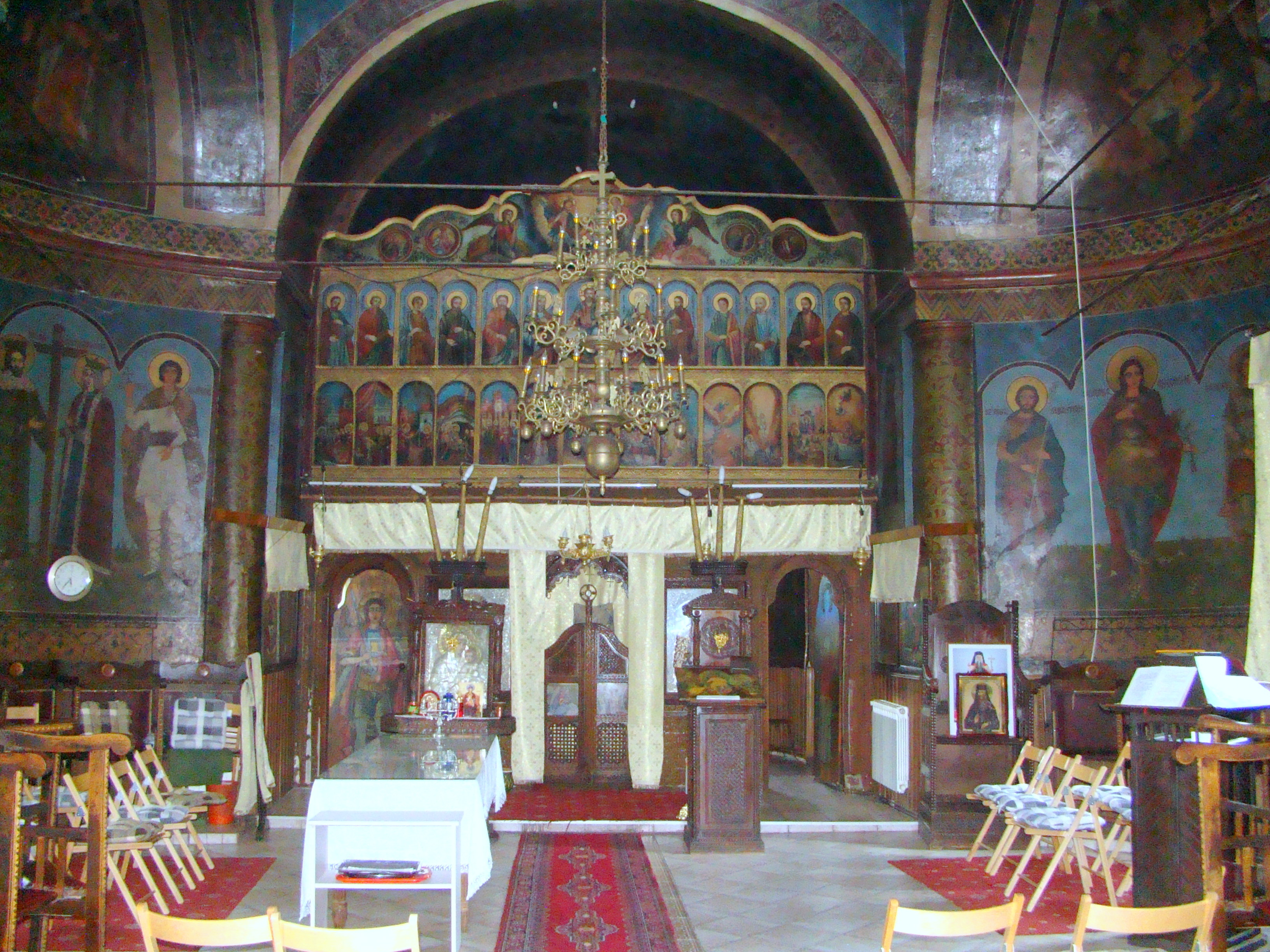 Church of the Presentation in Ocnele Mari, Vâlcea county, Romania